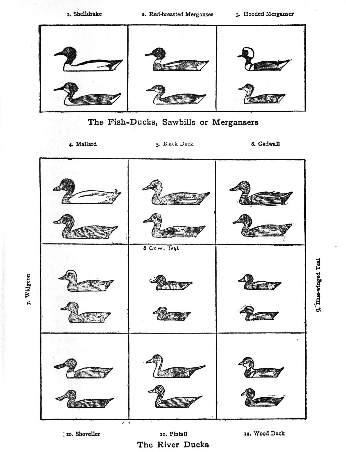 Diagram of common river ducks by Ernest Thompson Seton in his Two Little Savages (1903) that was the inspiration for R.T. Peterson's field guide